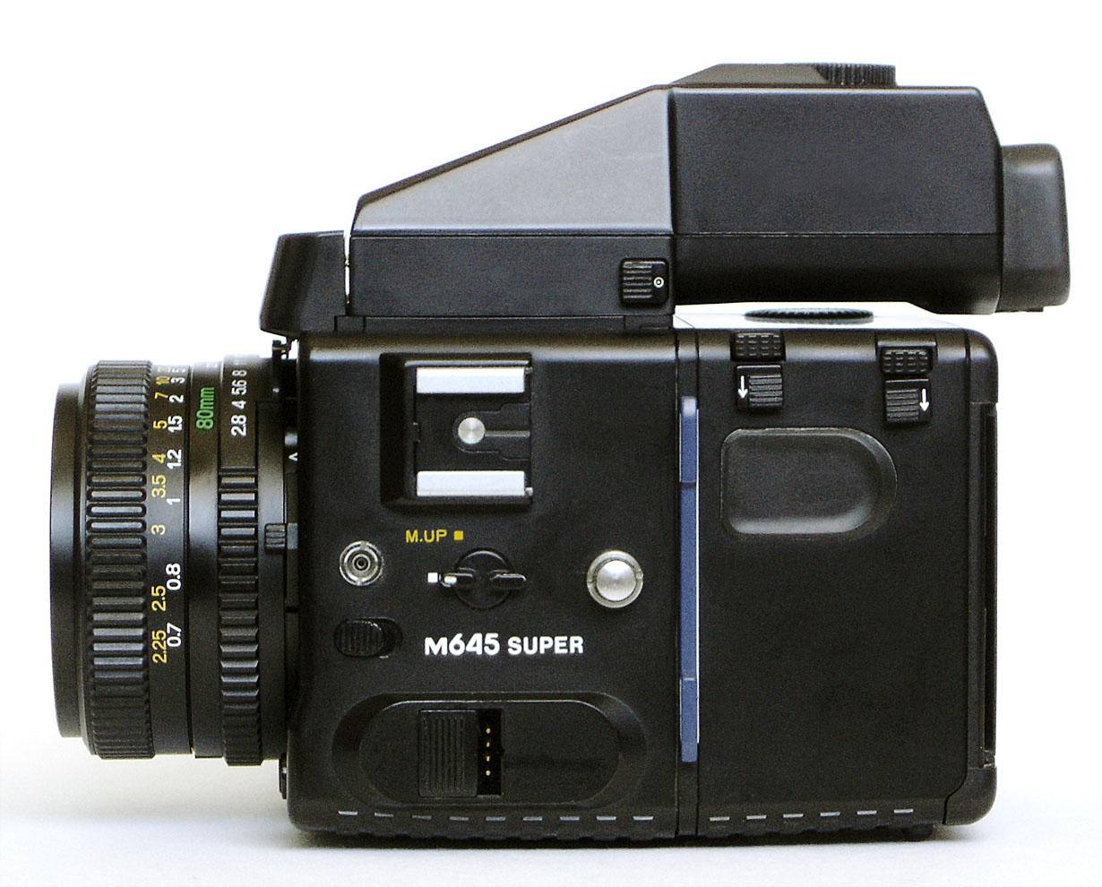 SLR medium format camera Mamiya 645 Super with 80 mm / 1:2.8 Mamiya-Sekor lens, power drive grip and AE Prism Finder – left view. Marketing date : December 1985 until 1993.